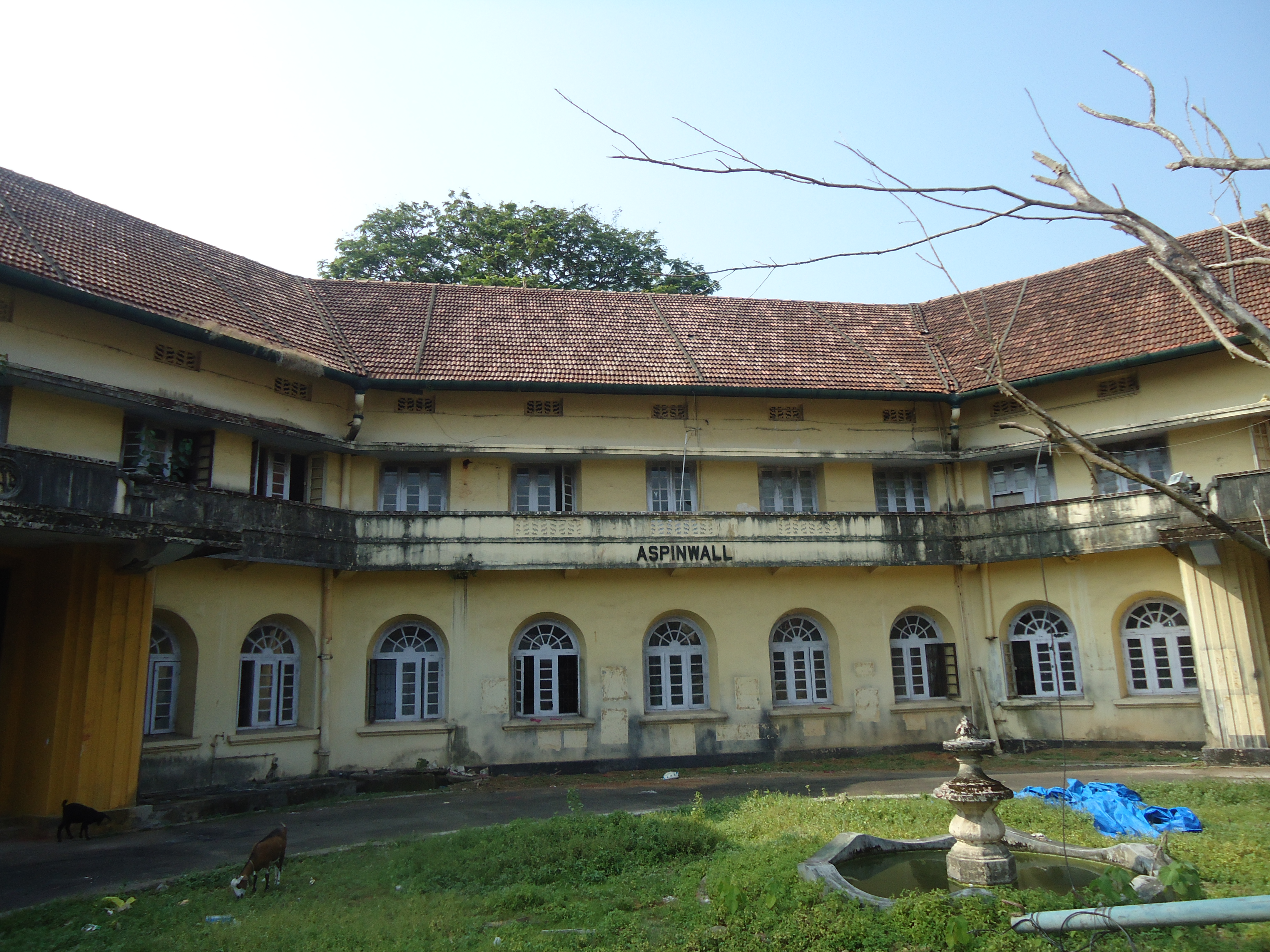 Wiki Hackathon Photo Walk Photos AspinWall House Building Fort Kochi